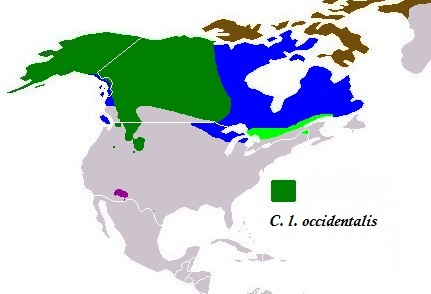 Original creator: Tommyknocker Uploaded by: GrittyLobo441